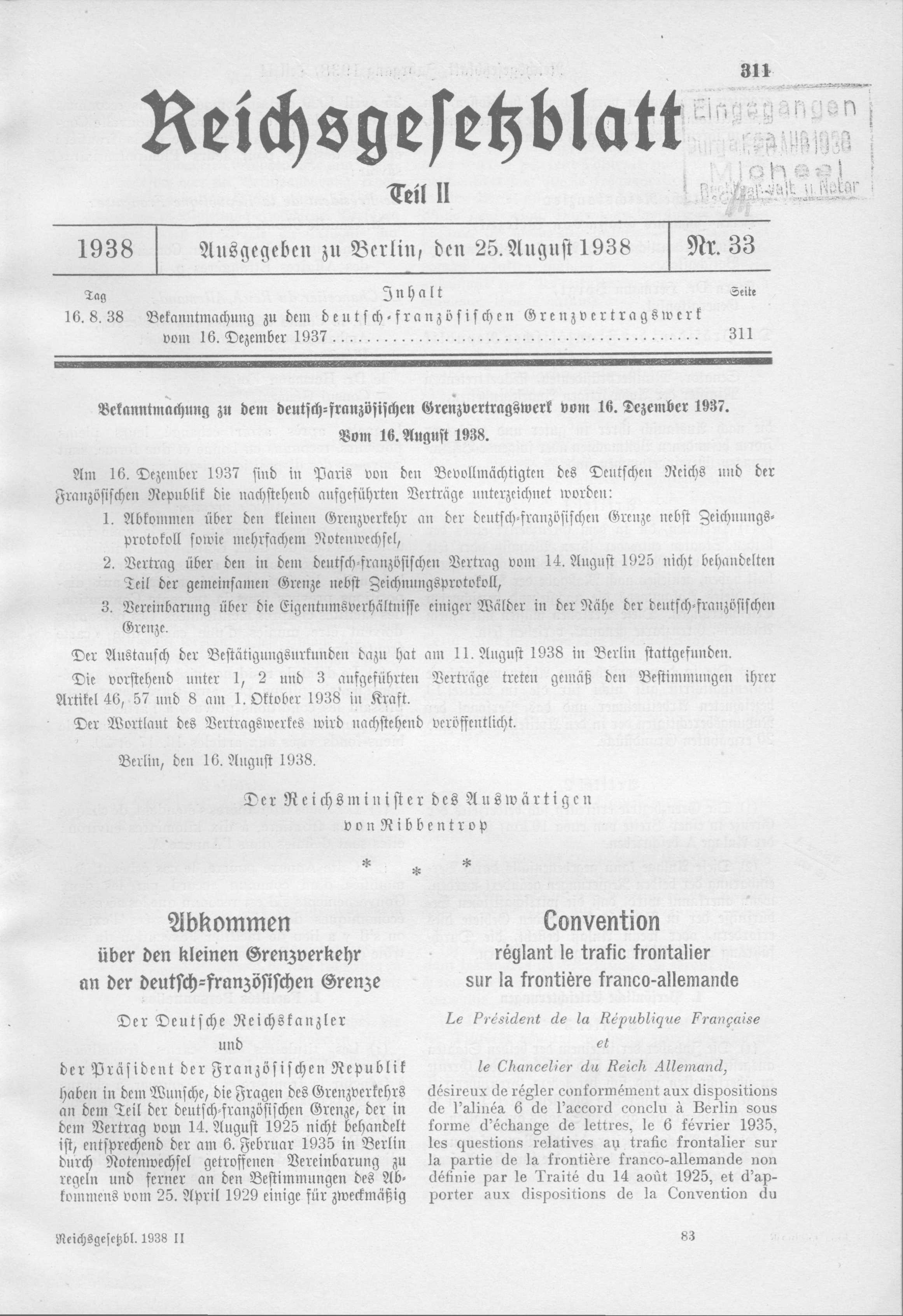 Scan from the Imperial Law Gazette of Germany, 1938, part 2